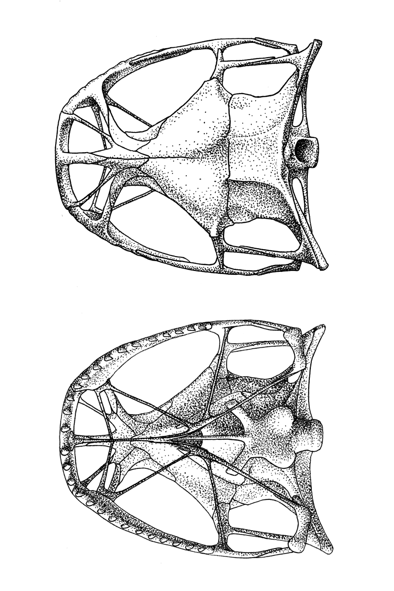 Skull reconstruction of Anurognathus ammoni from above and below views.